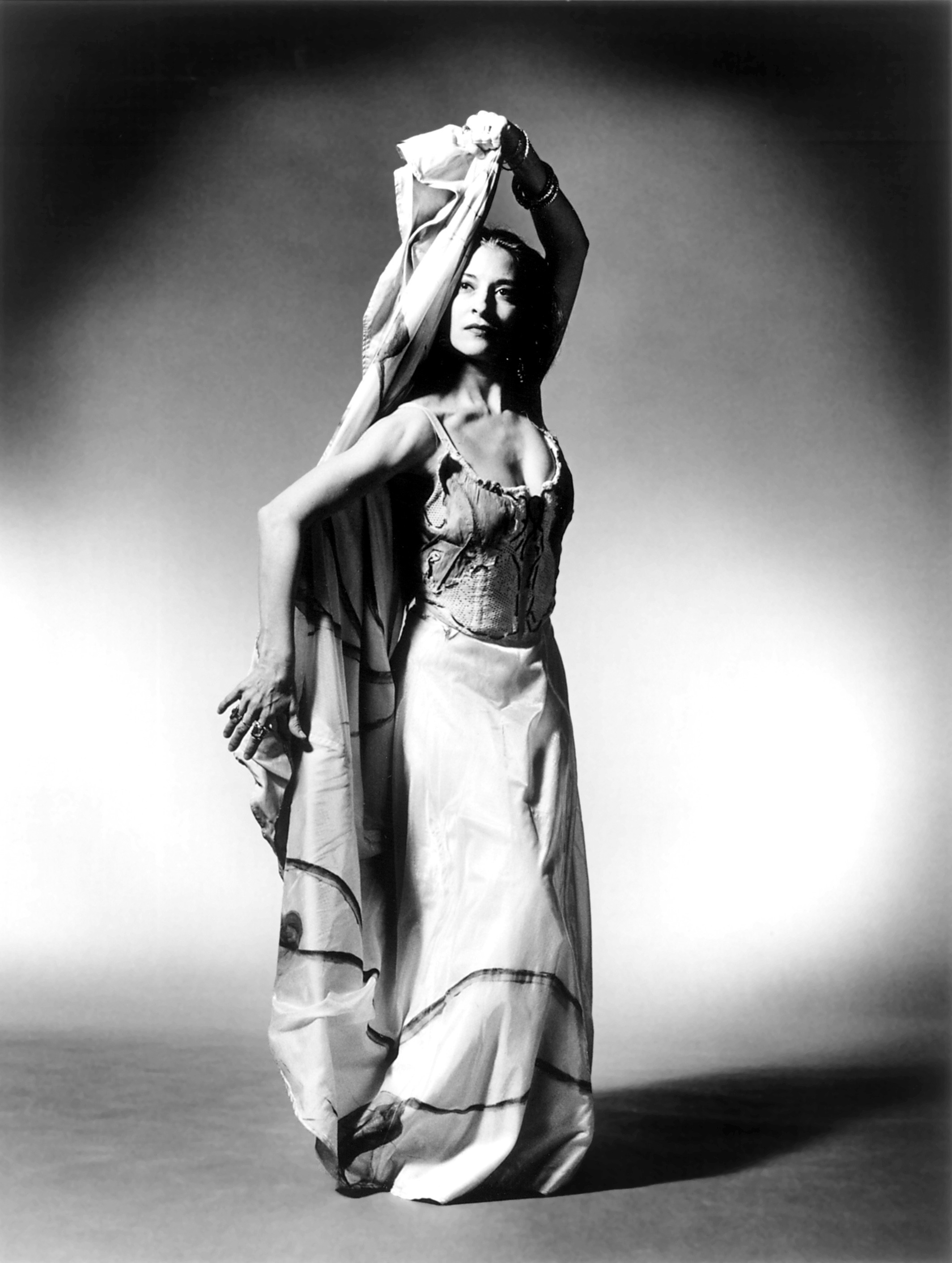 Photo Credit by Jack Mitchell